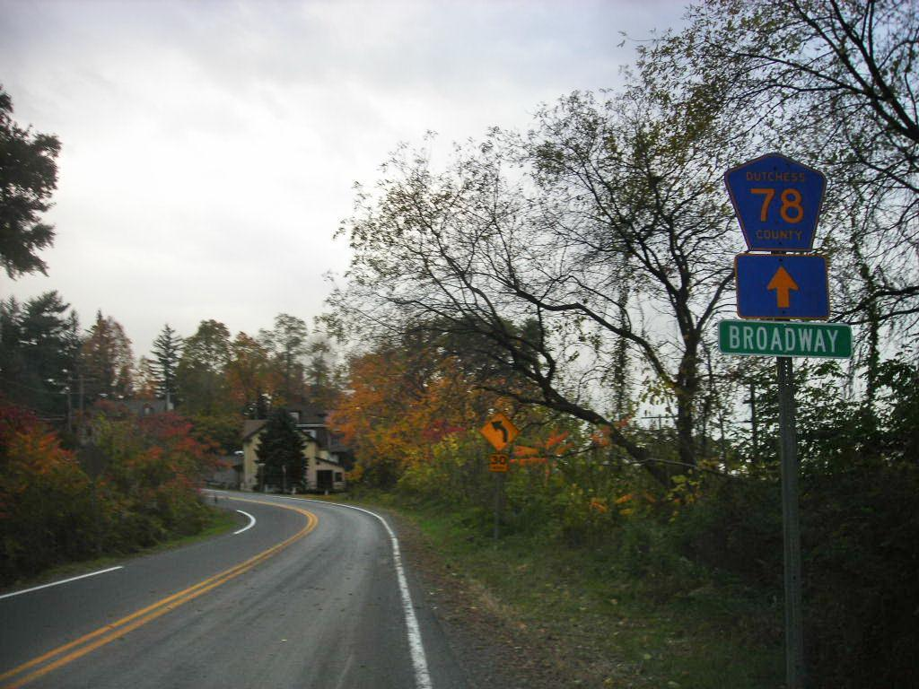 Dutchess County Route 78 (former New York State Route 402) sign in Tivoli